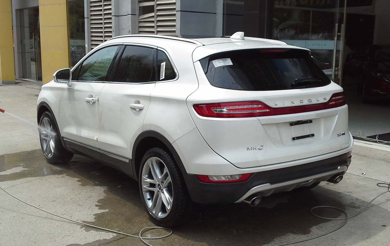 Lincoln MKC photographed in Wuhan, Hubei province, China.